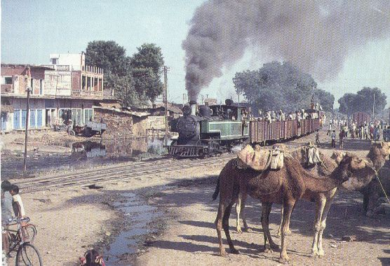 Steam Engine Narrow Gauge Train